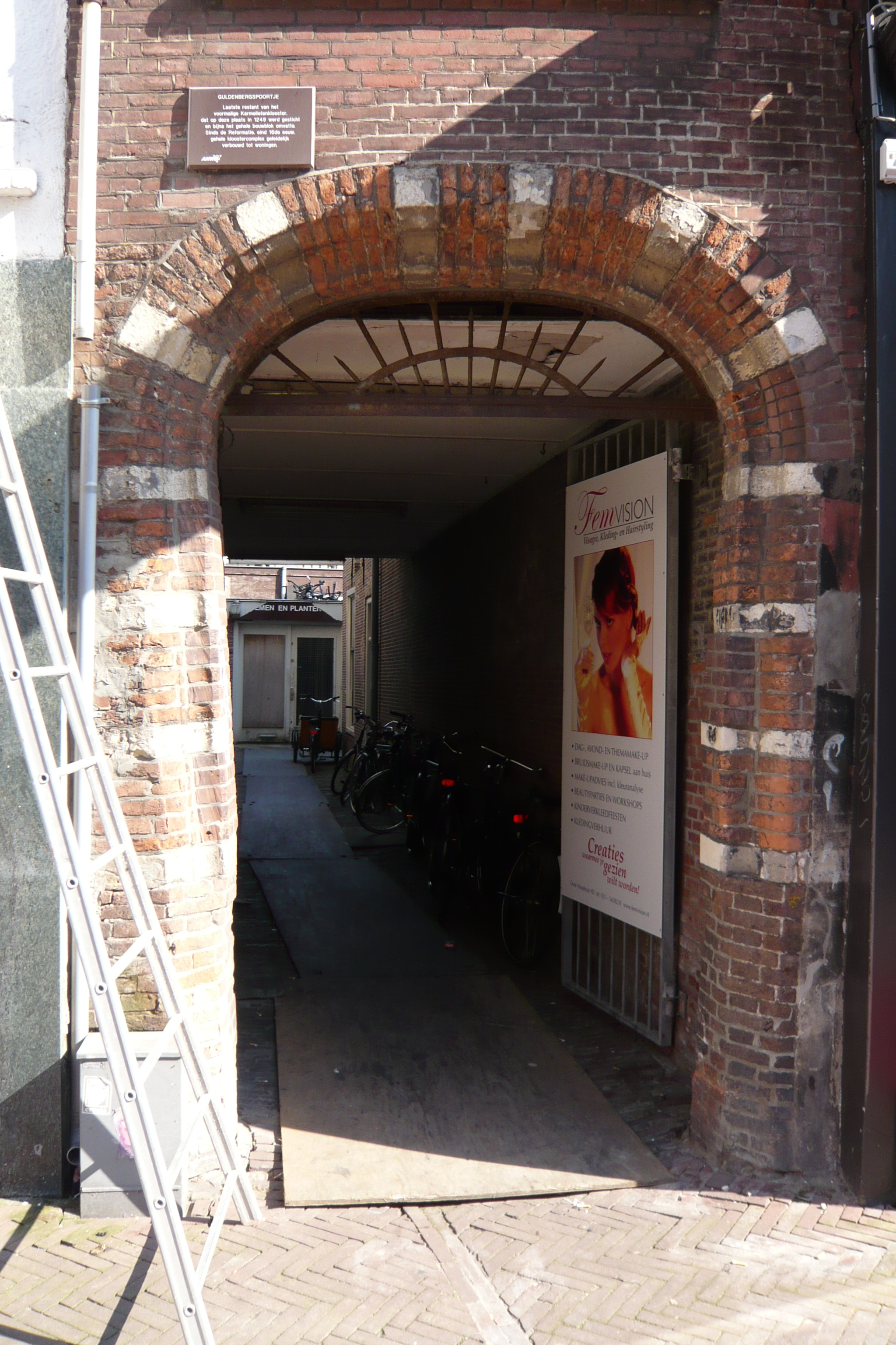 Guldenbergspoortje, Grote Houtstraat, Haarlem. Former gate to the "Carmelietenklooster"; the monastery of the Carmelites that included the Vrouwebroerskerk and once took up the entire block, but was slowly dismantled and reused for city housing after the Protestant Reformation in 1572. Today only the doorway remains.